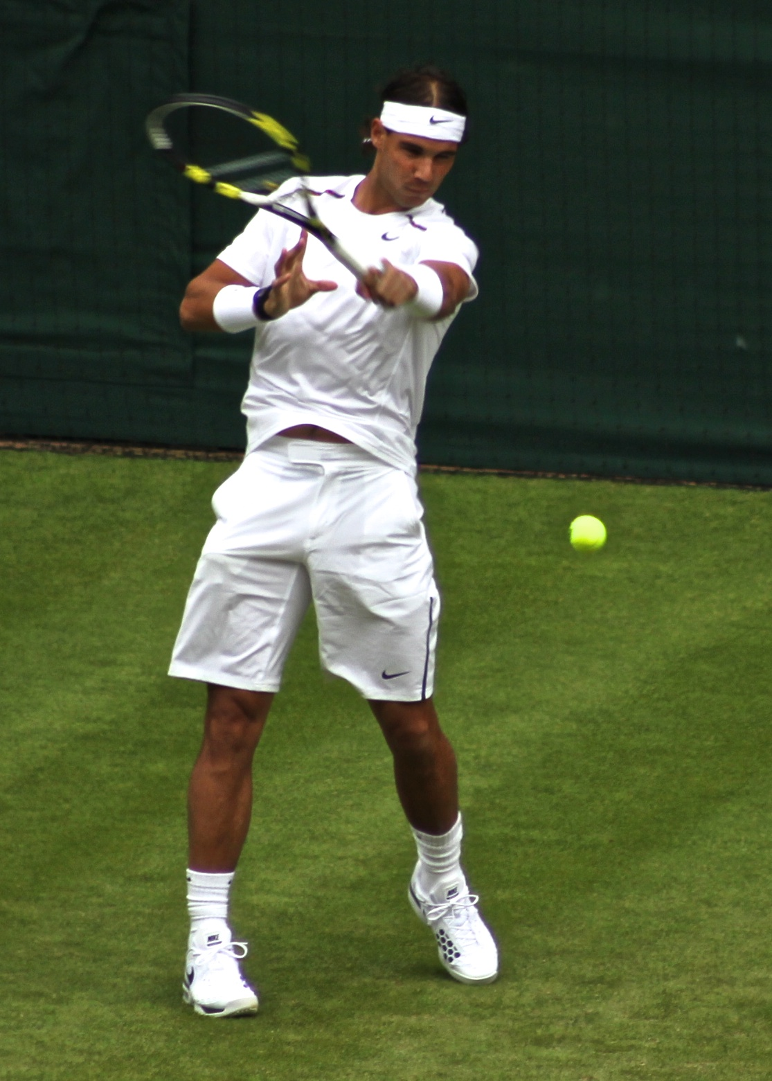 Nadal hitting a topspin forehand against Bellucci.